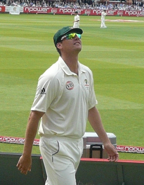 Stuart Clark wandering around the Lord's boundary as 12th Man during the 2nd Test of the 2009 Ashes series.